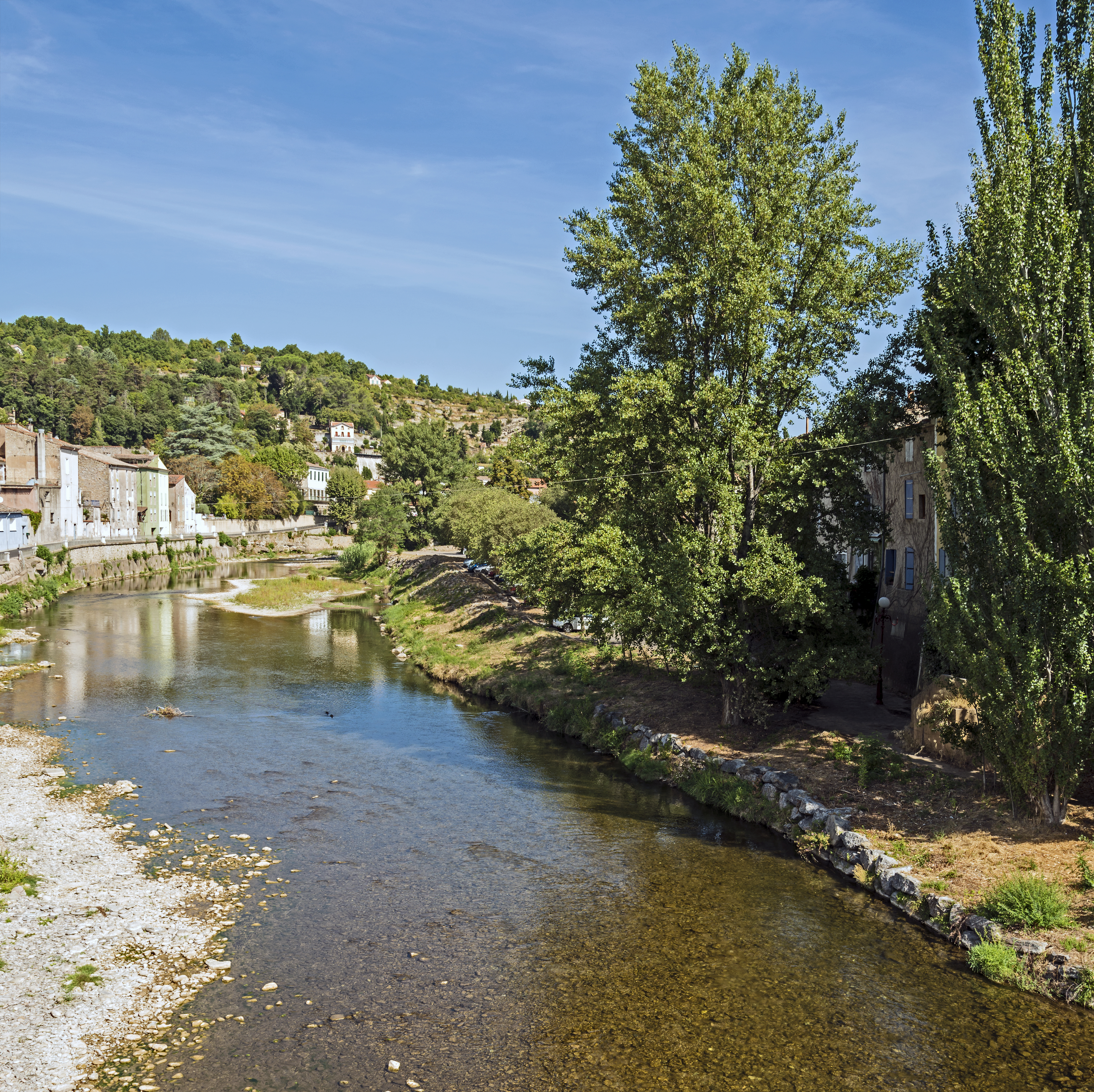 Bédarieux Hérault France - Orb river view from "pont vieux".